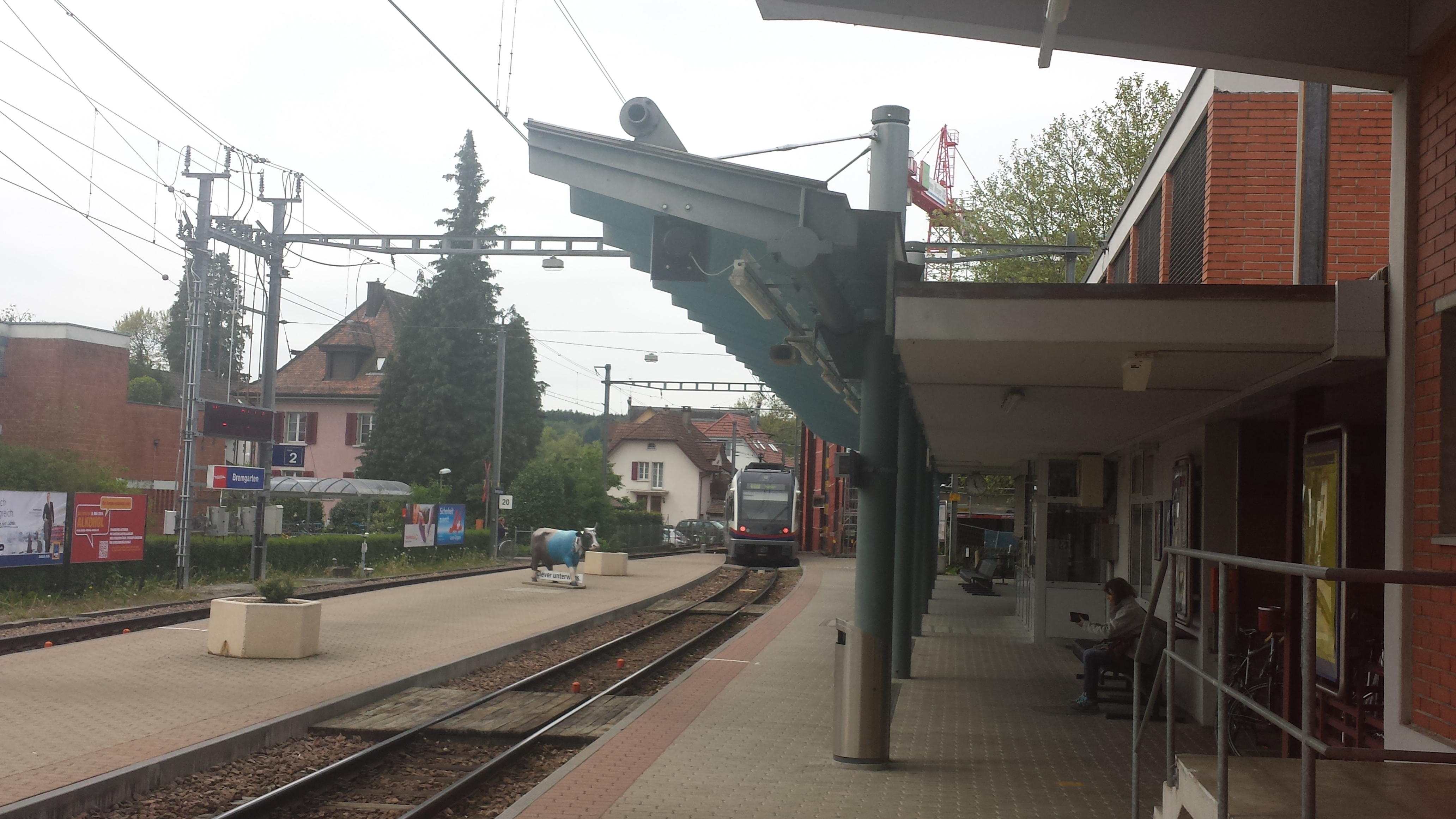 The platforms and station building at Bremgarten train station